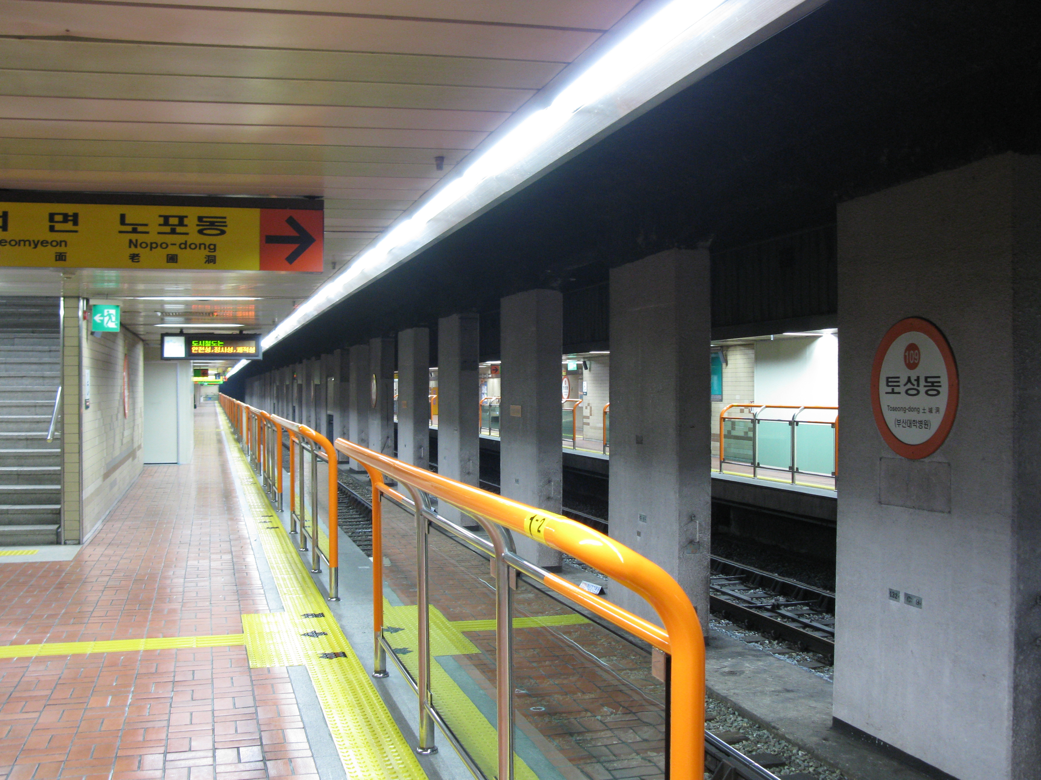 Toseong-dong Station platform (Busan Subway Line 1)